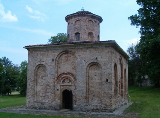 The church of Zemen monastery This is a retouched picture, which means that it has been digitally altered from its original version. Modifications: rotated. The original can be viewed here: Zemen-crkva.jpg. Modifications made by Spiritia.